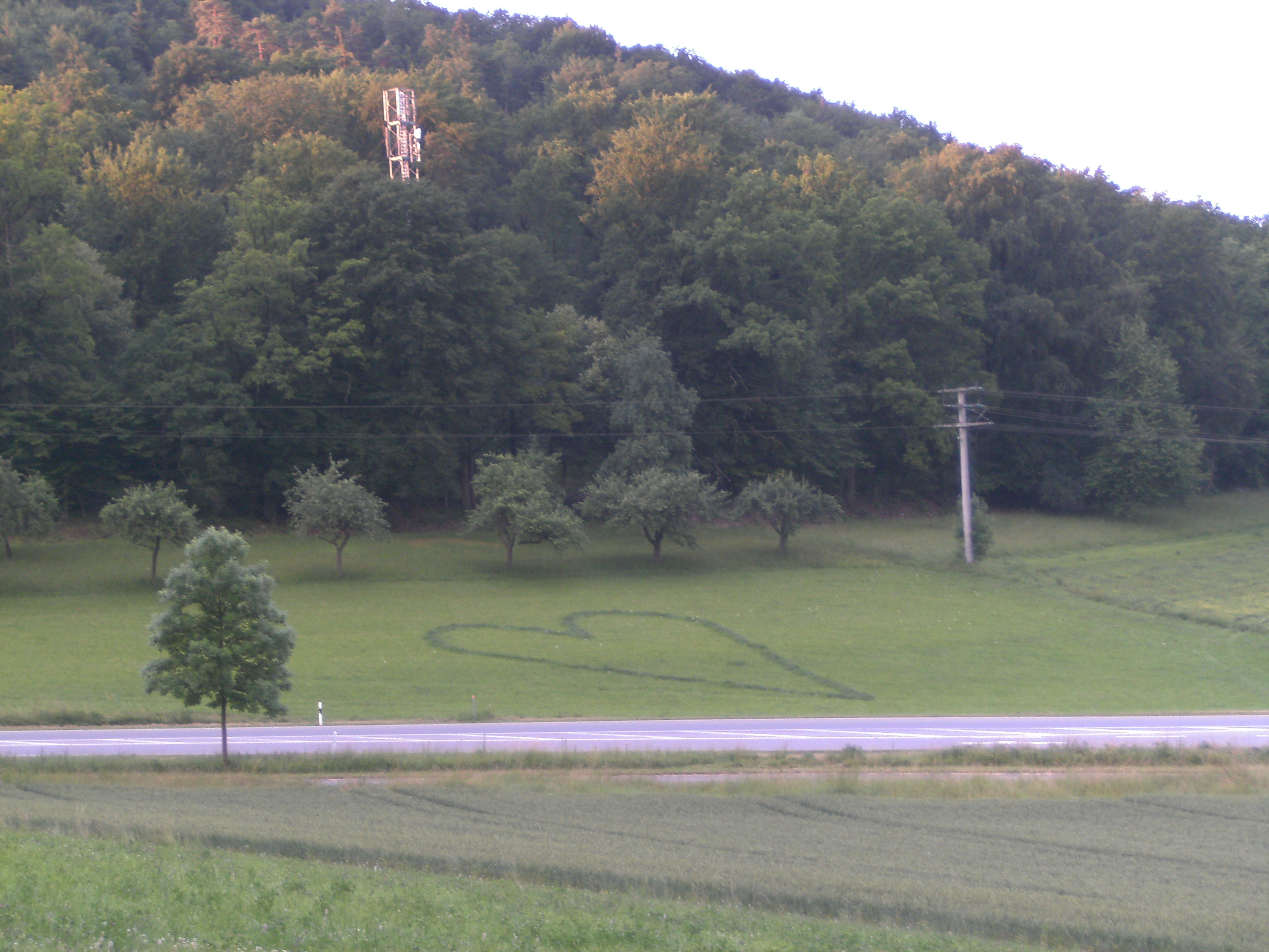 Heart on a meadow made with artificial fertilizer near Aidlingen, Baden-Württemberg, Germany